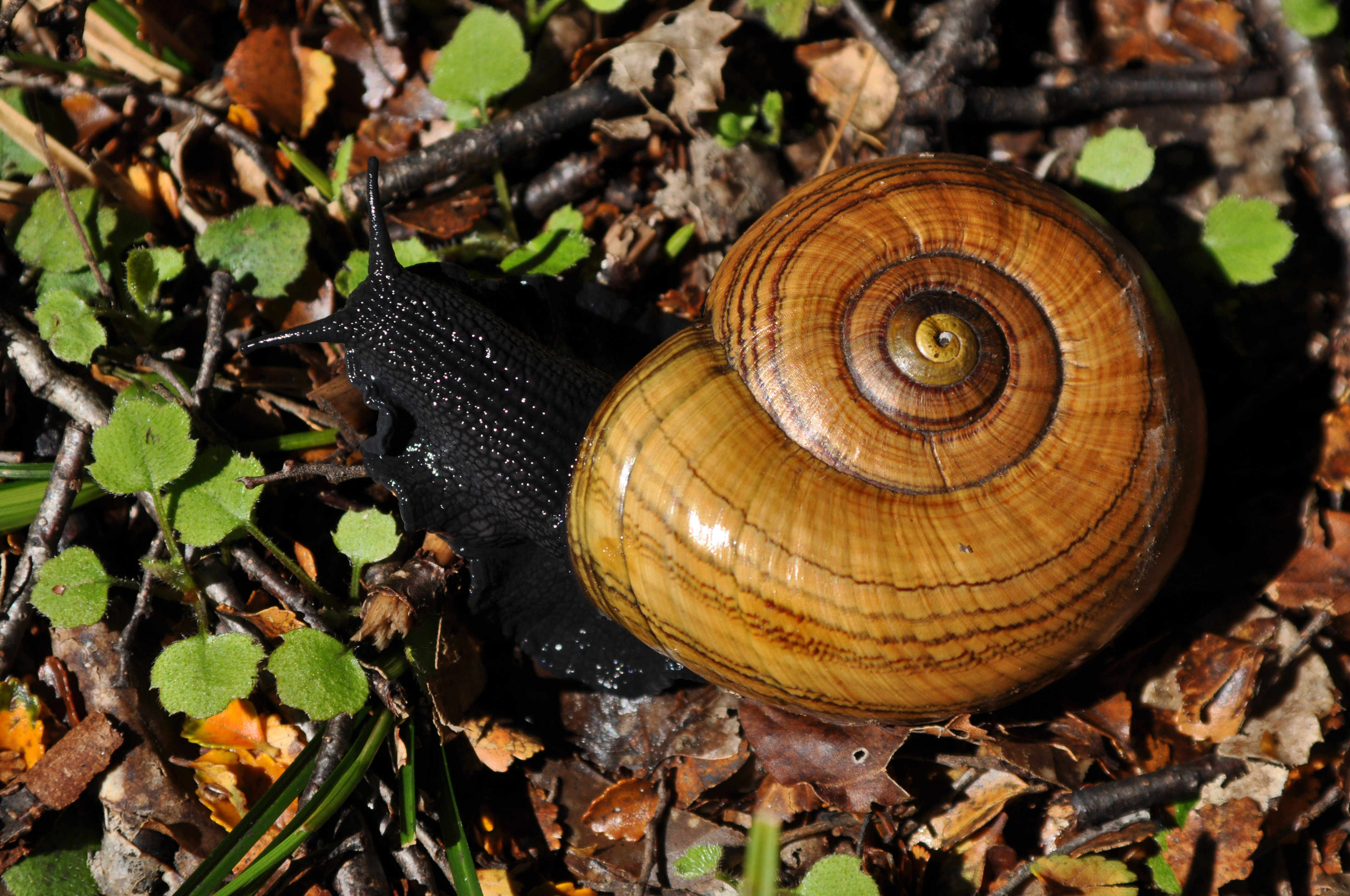 Powelliphanta hochstetteri hochstetteri, November 2011, Nelson-Marlborough Conservancy